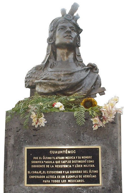 Cuauhtemoc monument in Zocalo